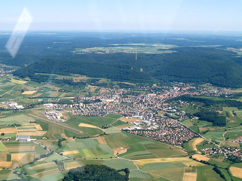 Aerial photograph of Heubach, Germany